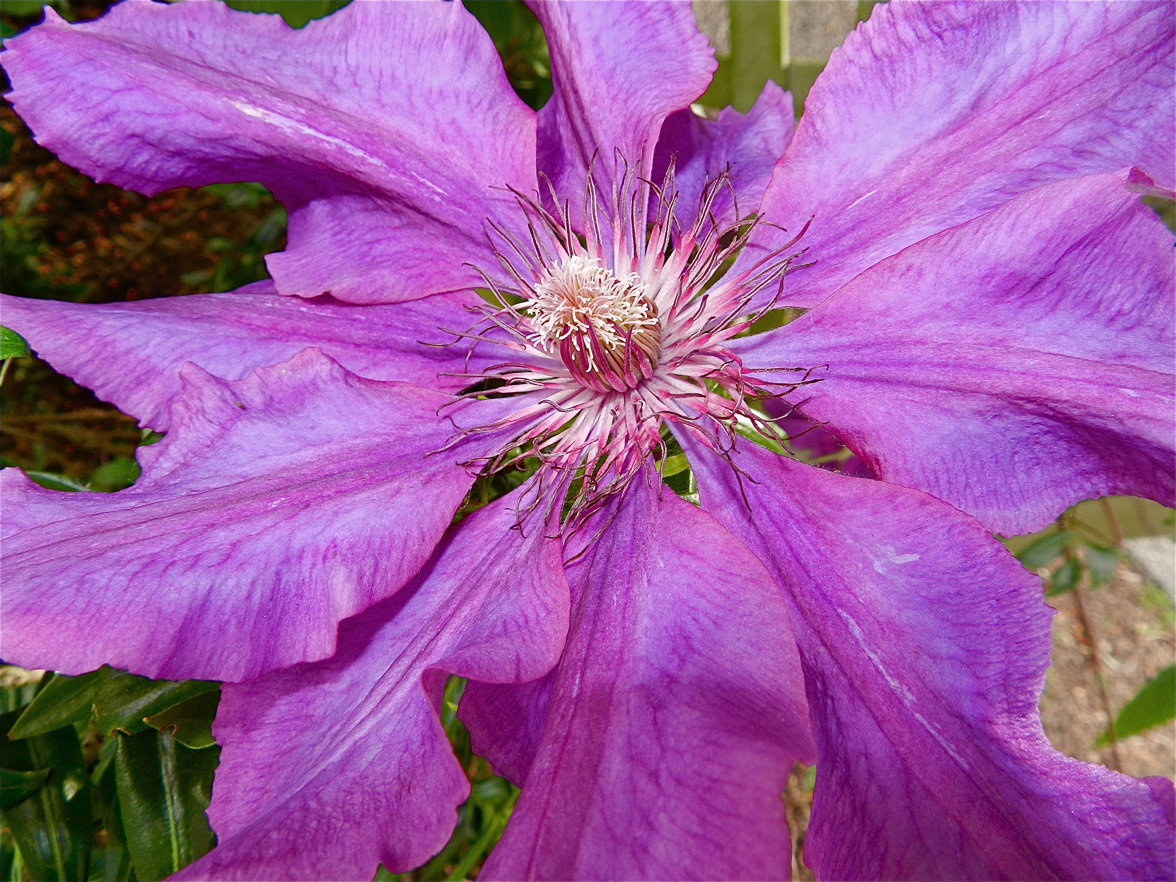 Back garden, patio trellis.